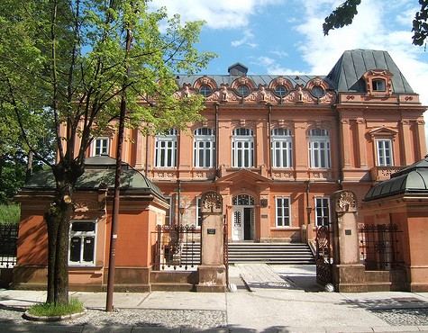 Building of former embassy of Russian Empire in Cetinje, Montenegro. Now there is Faculty of Fine Arts of University of Montenegro.